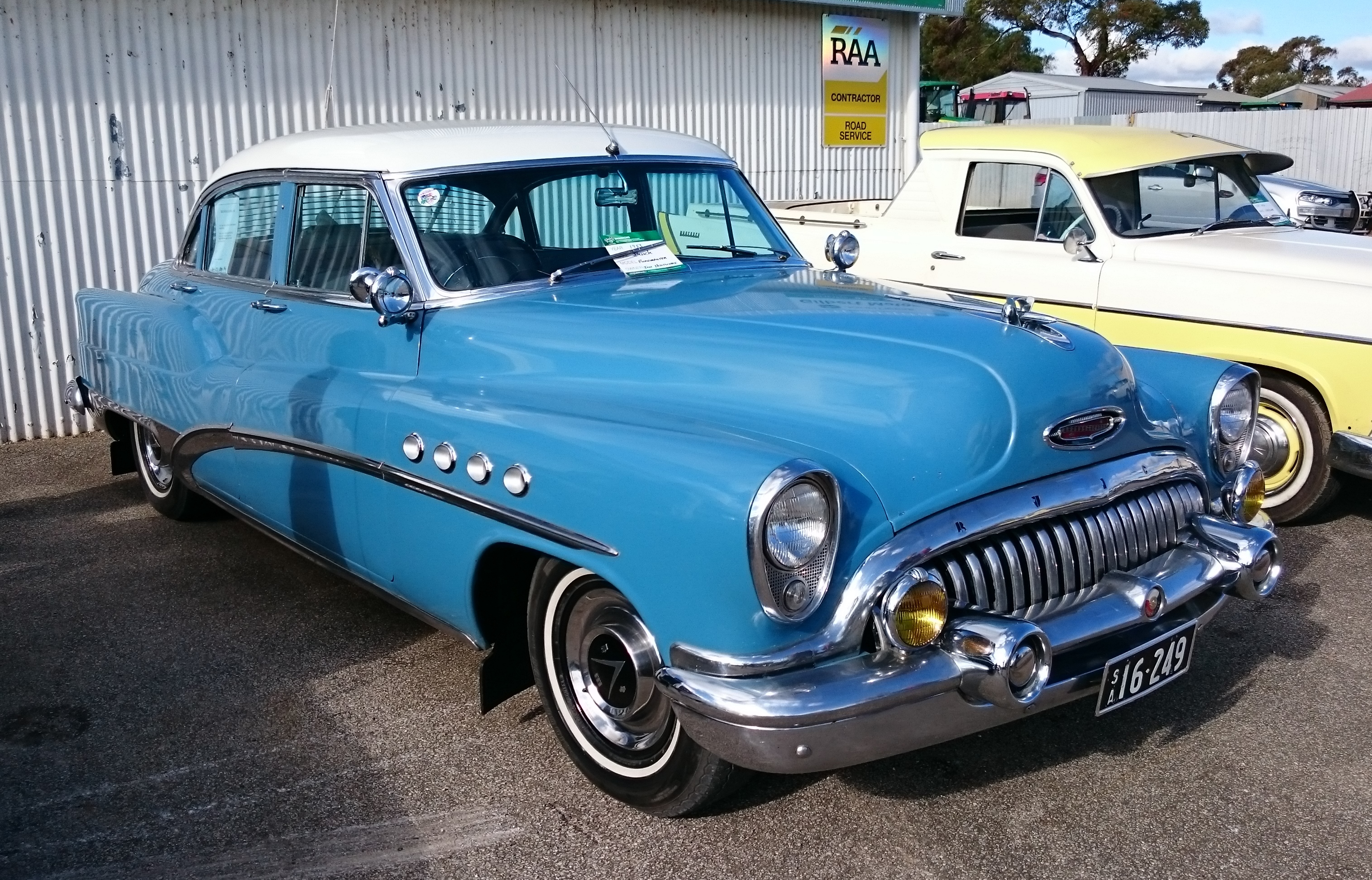 1953 Buick Roadmaster Riveria Sedan